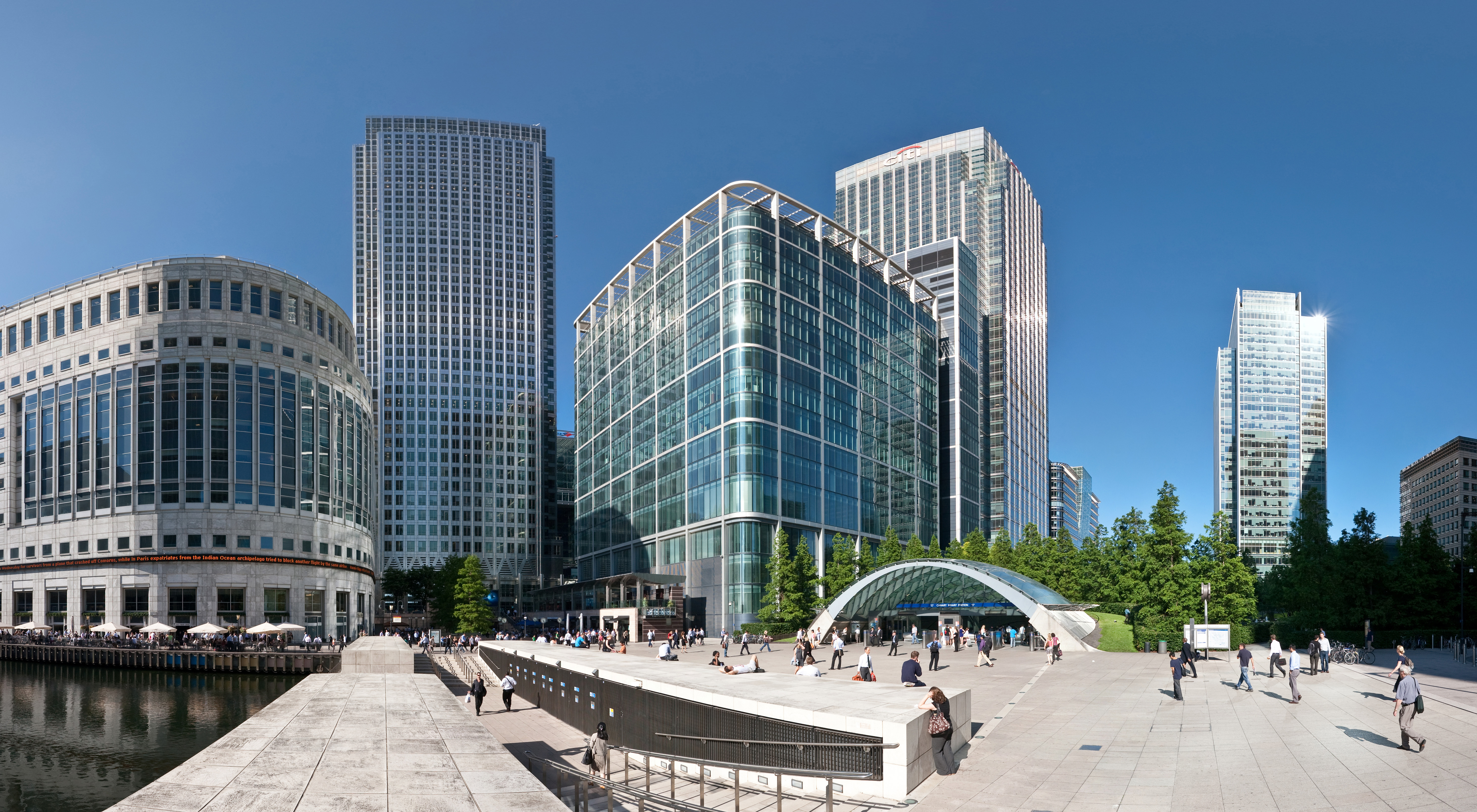 A 2 x 3 segment stitched image of Canary Wharf as viewed from the south-west. From left to right are the Reuters Building, 1 Canada Square, Citigroup Centre, Canary Wharf tube station below, and 10 Upper Bank Street.